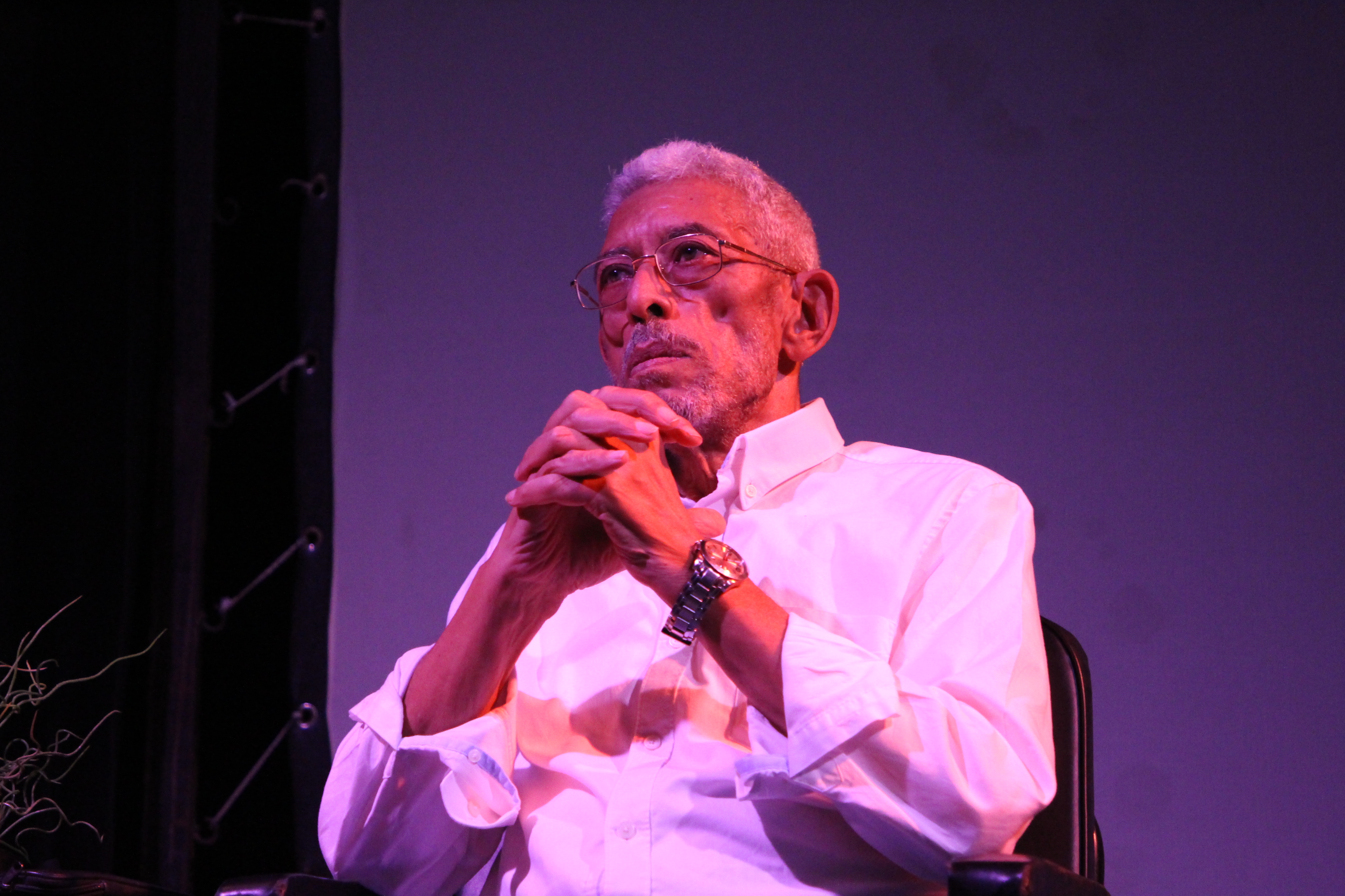 Dawoud Abd Alsaed